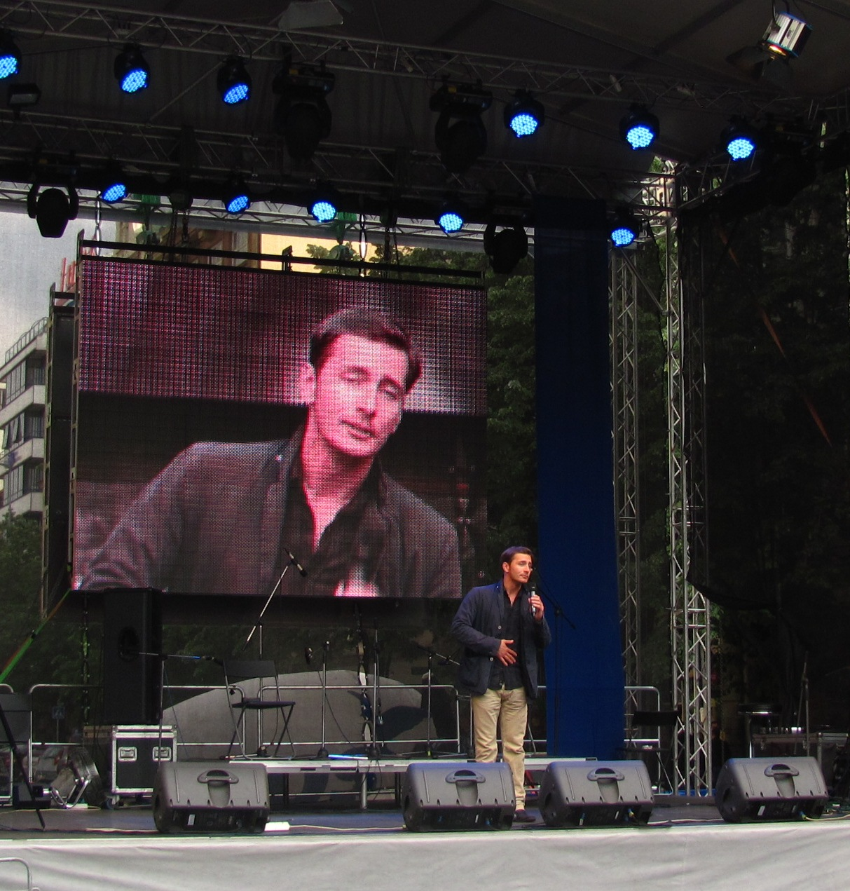 Petr Vondráček, Czech actor and musician